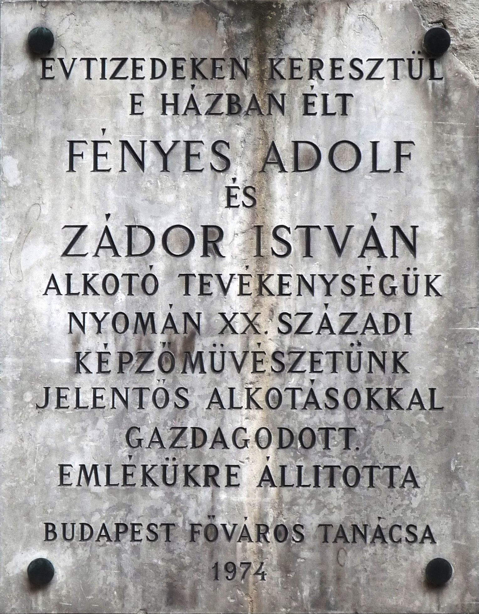 Common commemorative plaque to Mr. Adolf Fényes (1867-1945) and Mr. István Zádor (1882-1963) Hungarian painters. It is affixed to the front of the house where they lived and worked for several decades. (Budapest, District VI, Nagymező Street Nr 8).